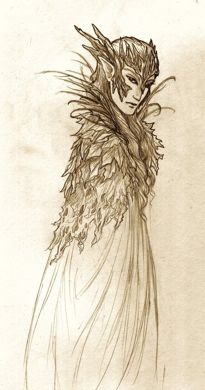 Elvenking (Thranduil) by Sonya Lindsay (Nolwyn) ( / ).